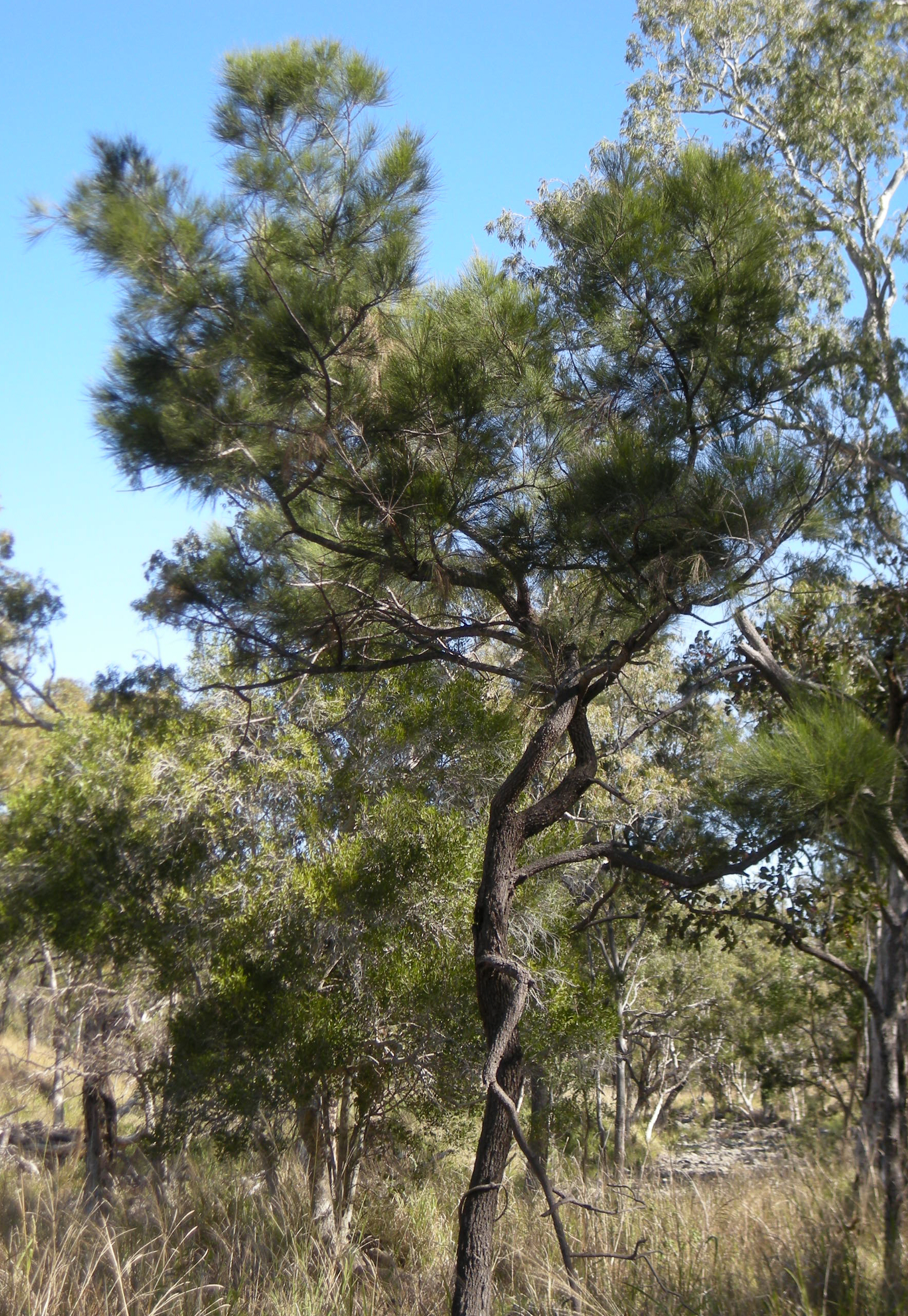 Allocasuarina torulosa (syn. Casuarina torulosa) tree, Mount Archer National Park, Rockhampton, Queensland.